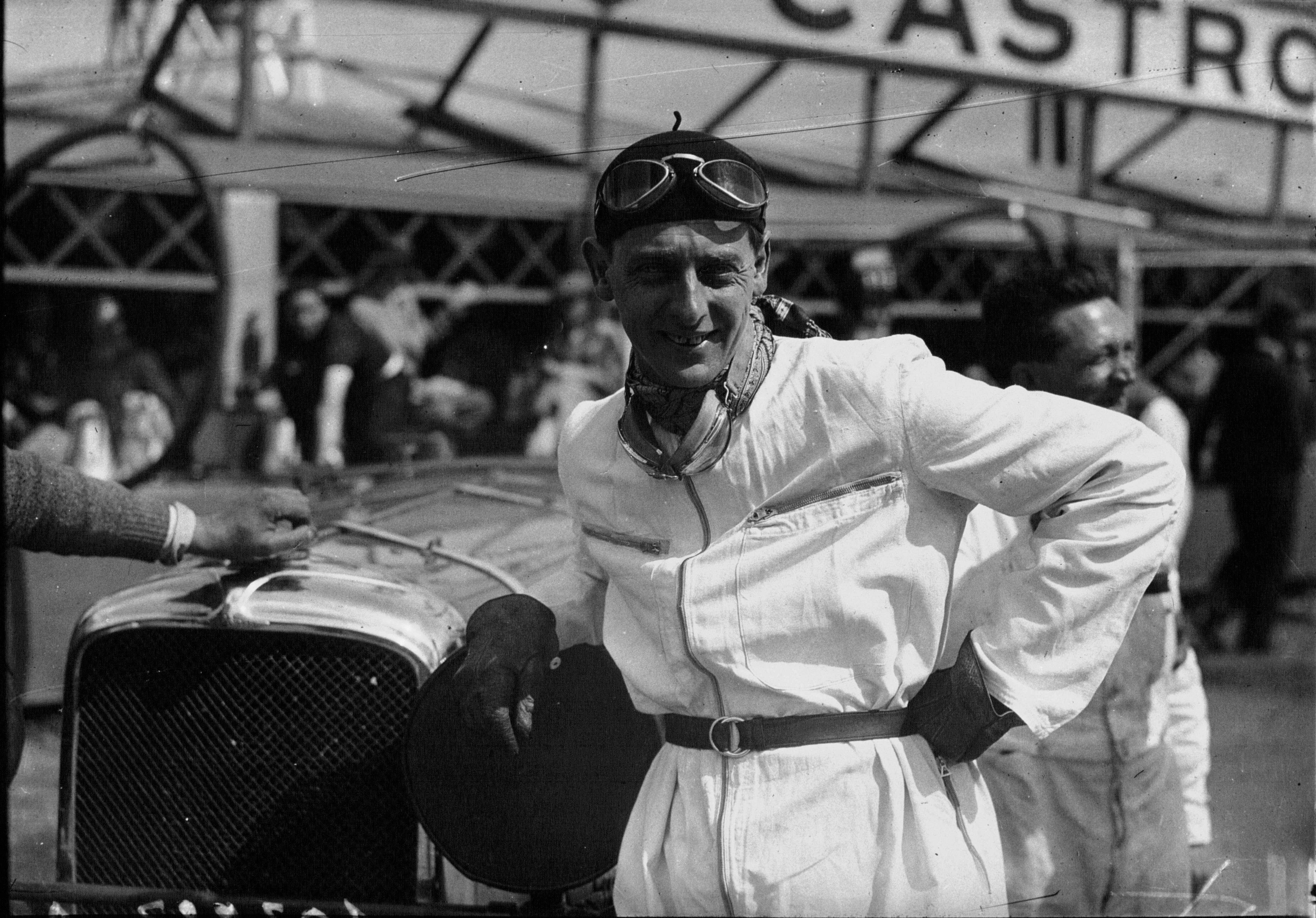 Prince Nicolae of Romania at the 1933 24 Hours of Le Mans.